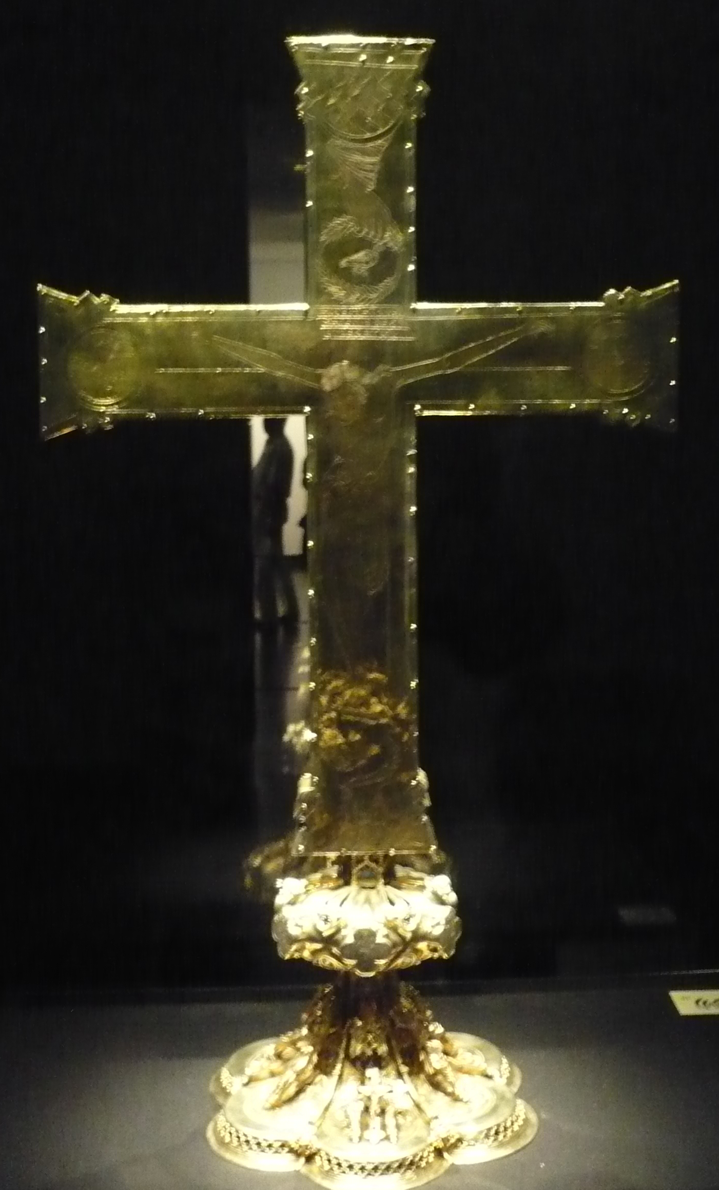 Lothar's Cross - front side with Crucifixion